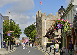 Castle St, Dalkey, County Dublin. Photo courtesy John Fahy of